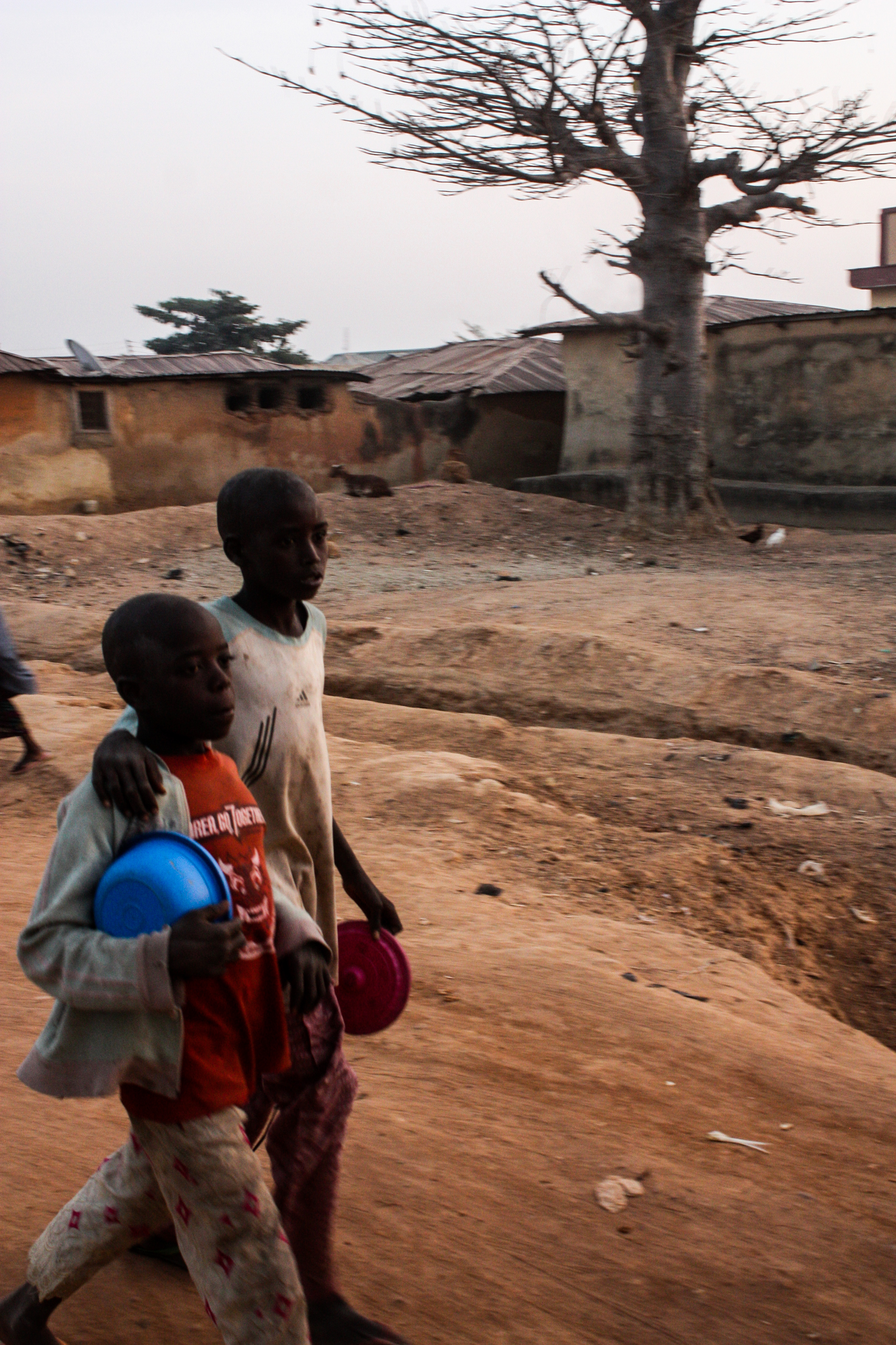 Almajiri's are mostly common in northern Nigeria but have managed to find their way across the country. They are children whose parents have sent them off to seek Qur'anic Knowledge and neglecting them in the hands of their teachers/ guardians, whom they answer to. They beg on the streets to make a living and return some proceeds to their "guardian". #Nigeria